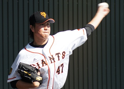 Giants yamaguchi